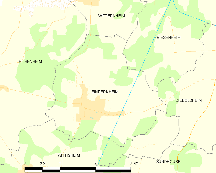 Map of French municipality